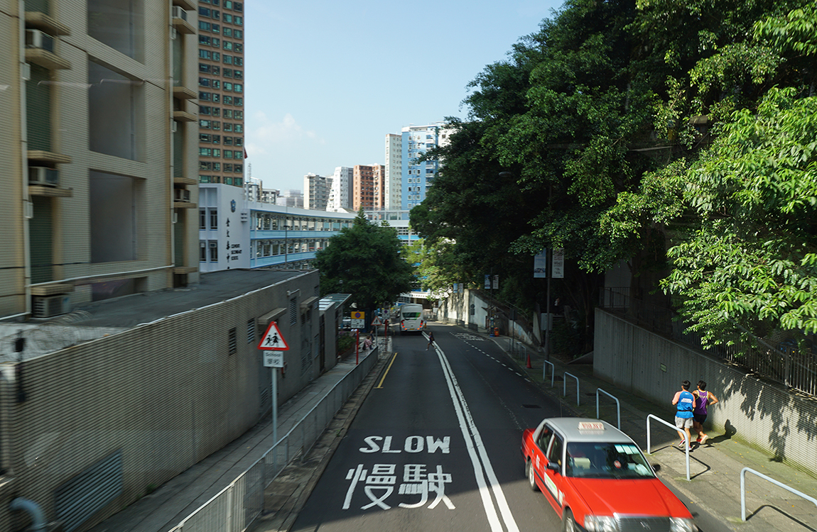 Fortress Hill Road in Fortress Hill, Hong Kong.